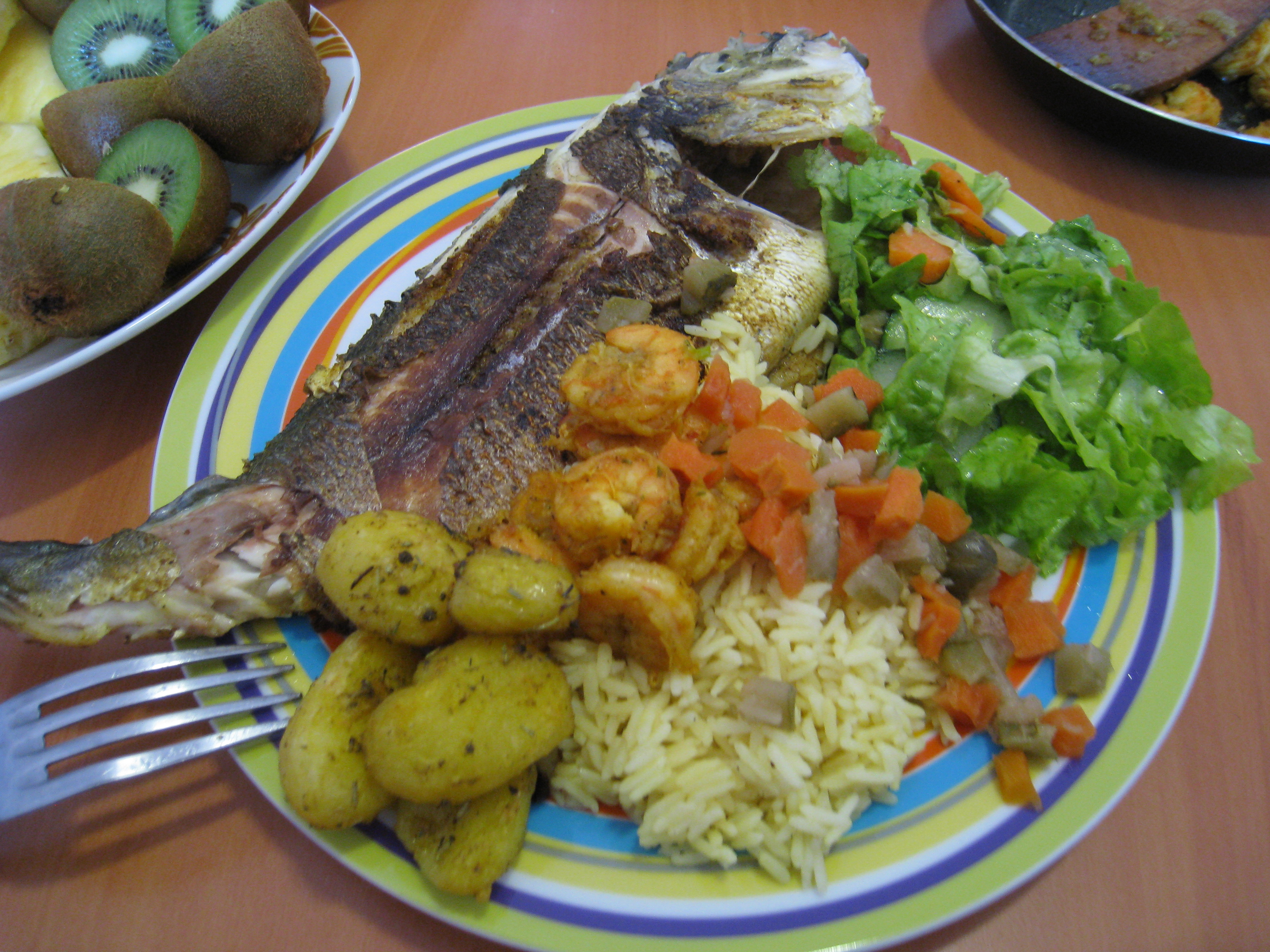 launch with grilled bream